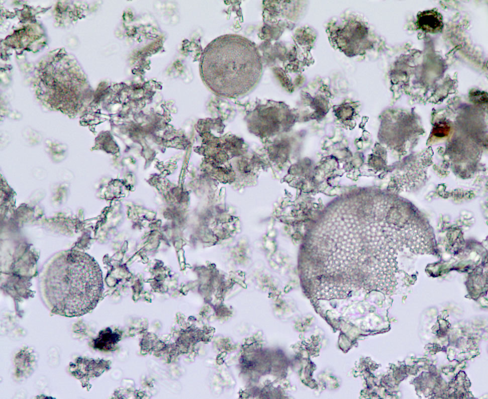 Diatom testa in commercial diatomaceous earth for swimming pool filters